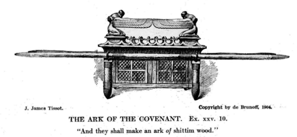 The Ark of the Covenant